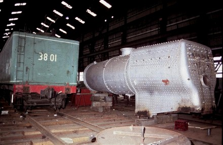 3801 tender under restoration and 3642 boiler at State Dockyard 1985, Newcastle, NSW